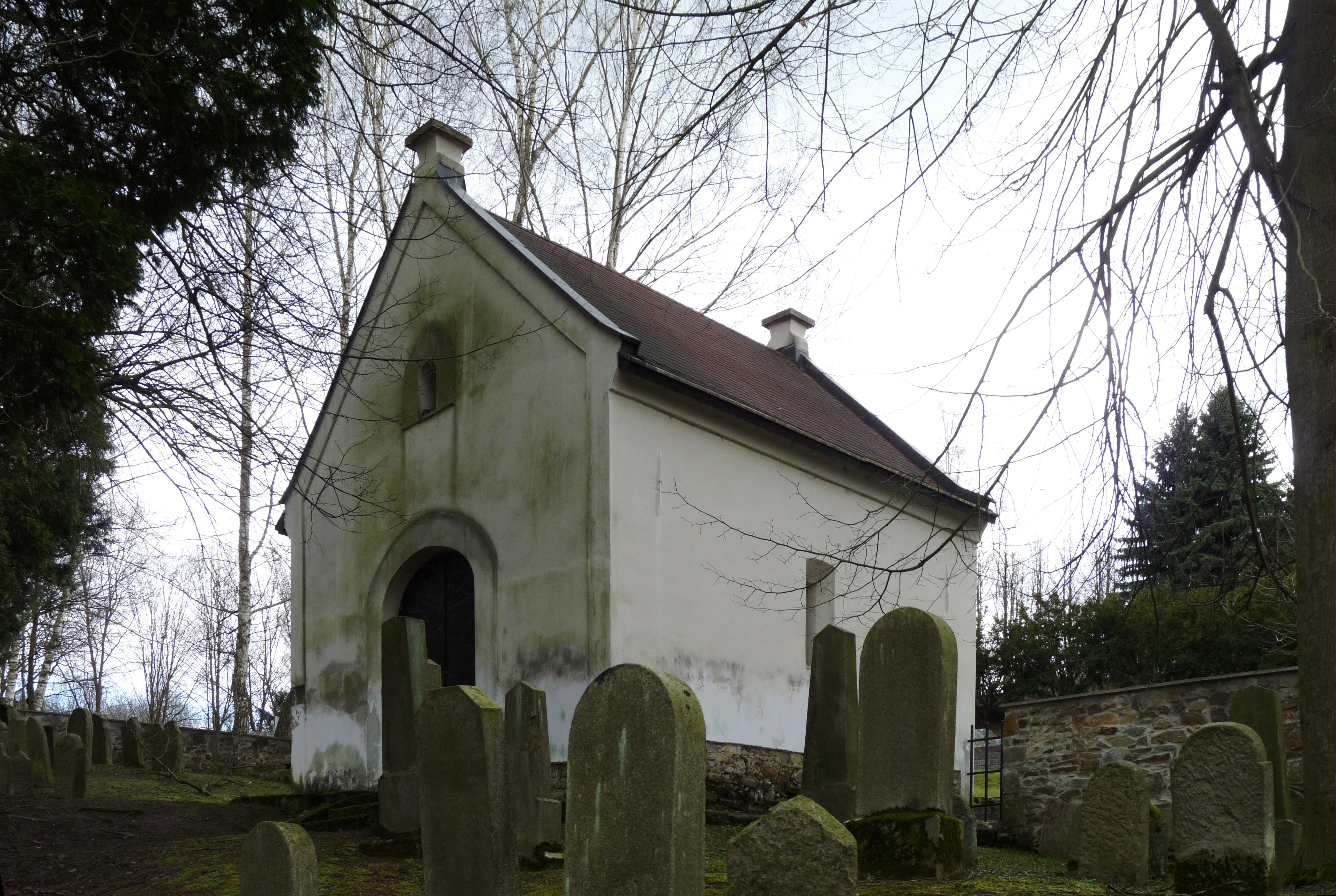 Ceremonial hall in the Jewish cemetery in the town of Ledeč nad Sázavou, Havlíčkův Brod District, Vysočina Region, Czech Republic.